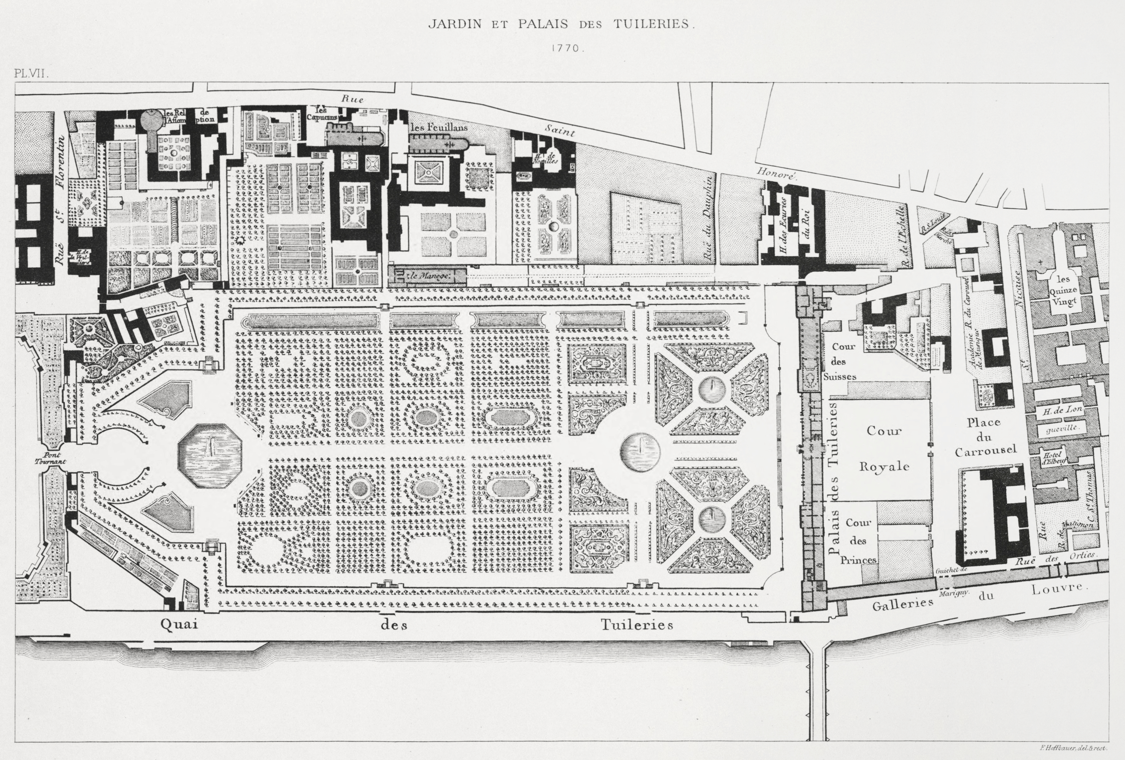 A plan of the Jardin et Palais de Tuileries in 1770. The overlay shows the same area in 1879.